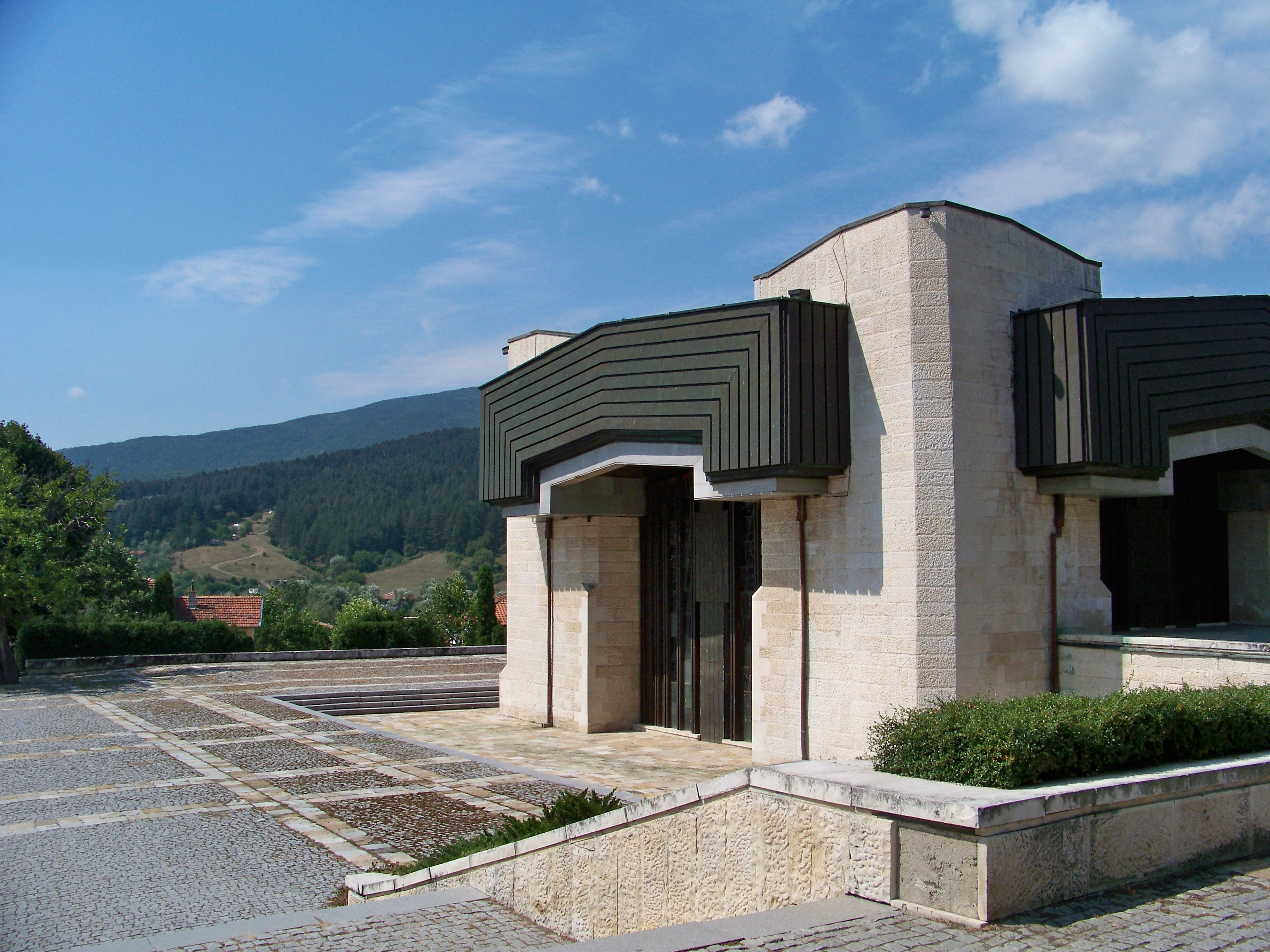 Kotel (Bulgarian: Котел, "cauldron") is a town in central Bulgaria, part of Sliven Province.